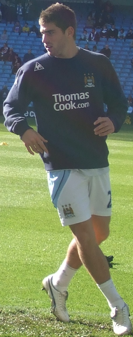 Ched Evans.